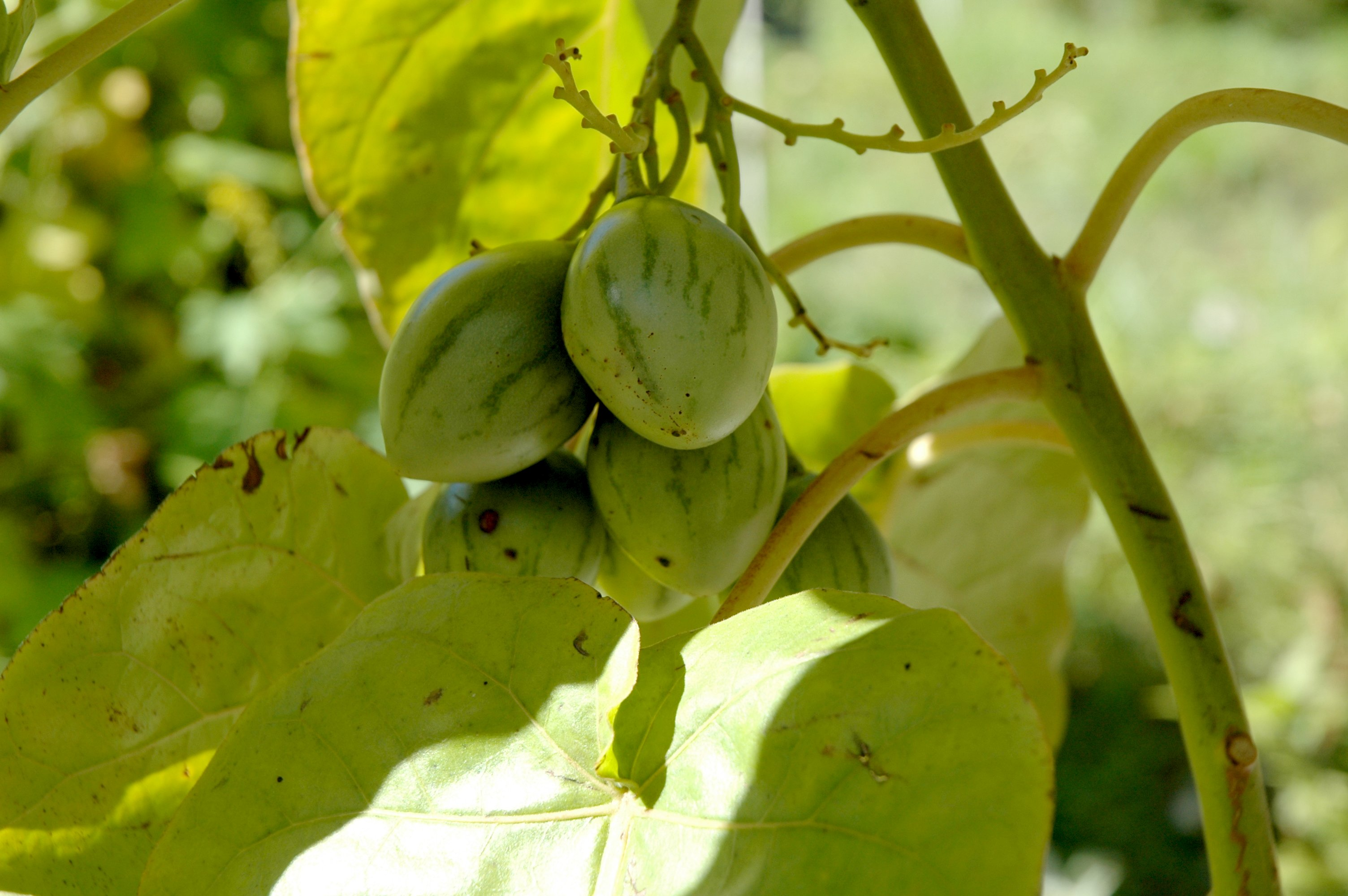 Habit of Solanum betaceum (Solanaceae) at Jena Botanical Garden, Germany